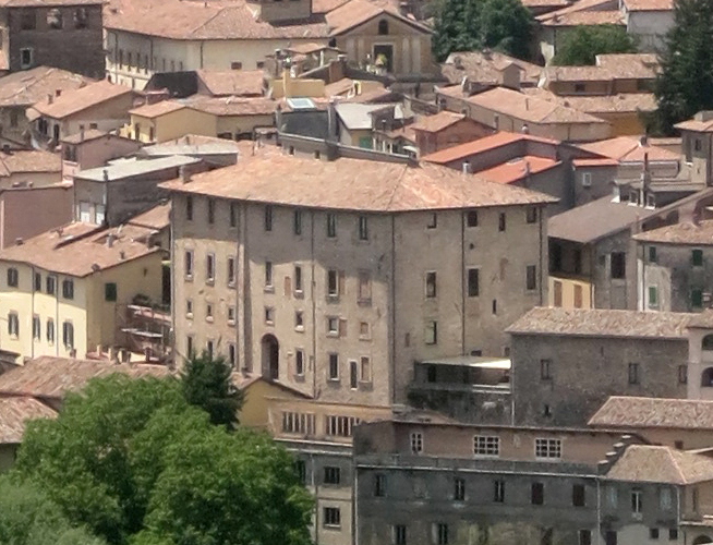 Palazzo Potenziani Fabri as seen from Colle San Mauro - Rieti, Lazio, Italy